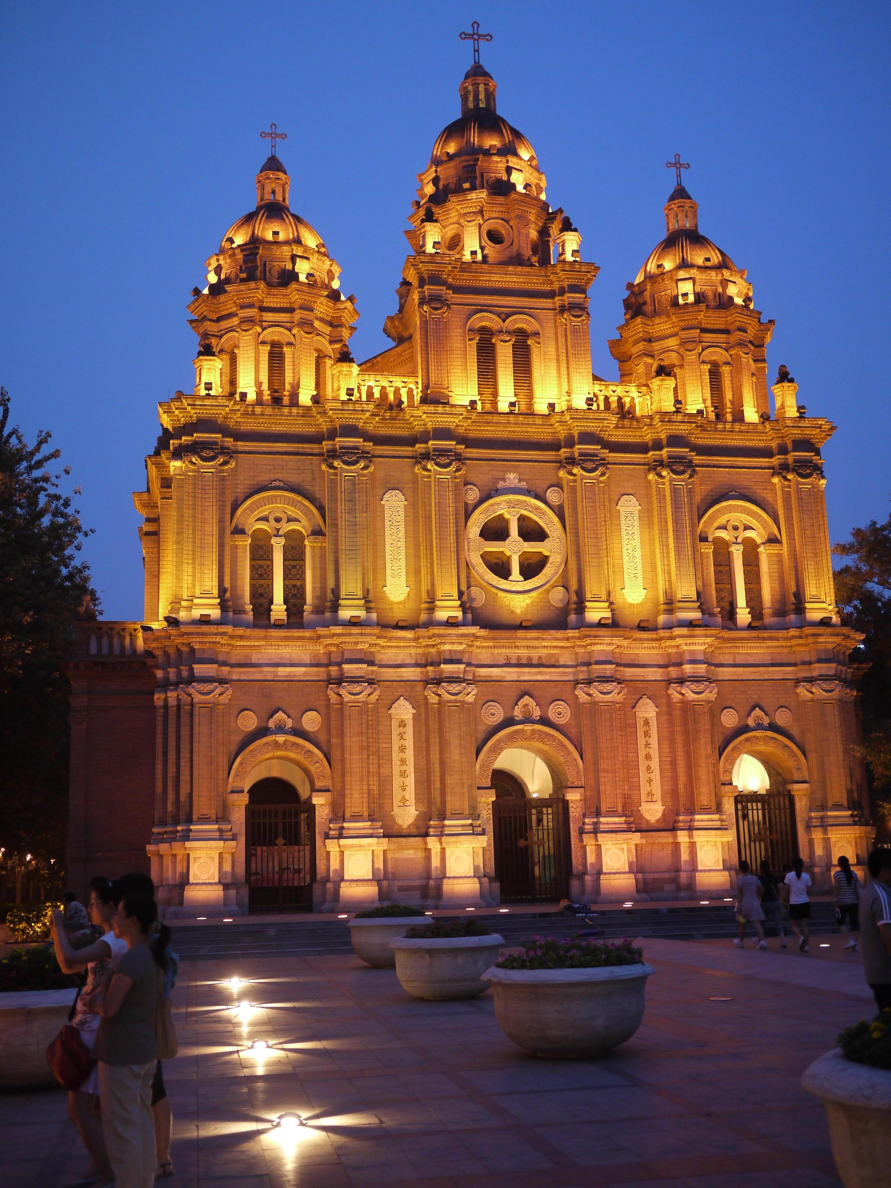 A famous place for shooting wedding photos.